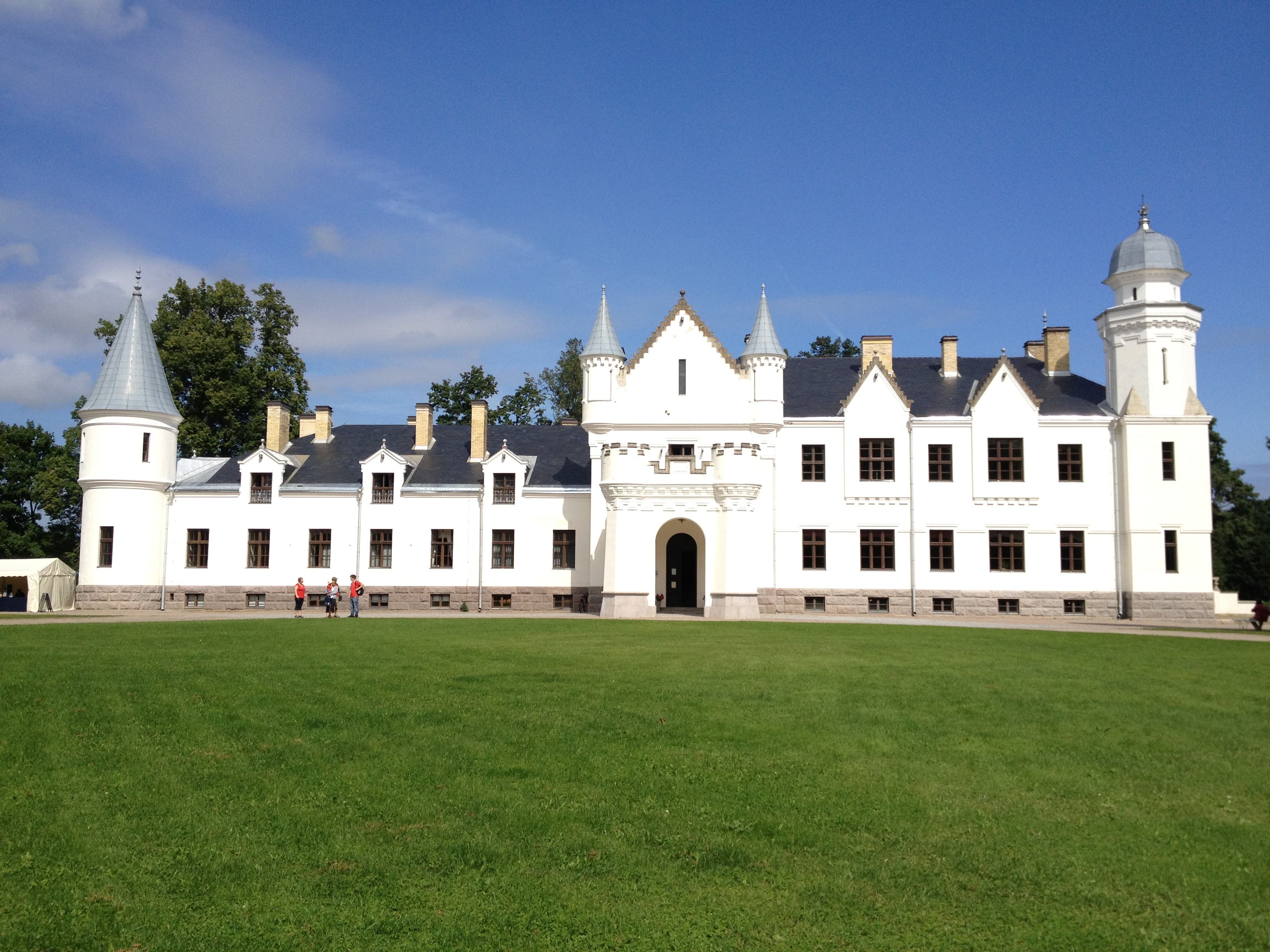 Alatskivi Castle